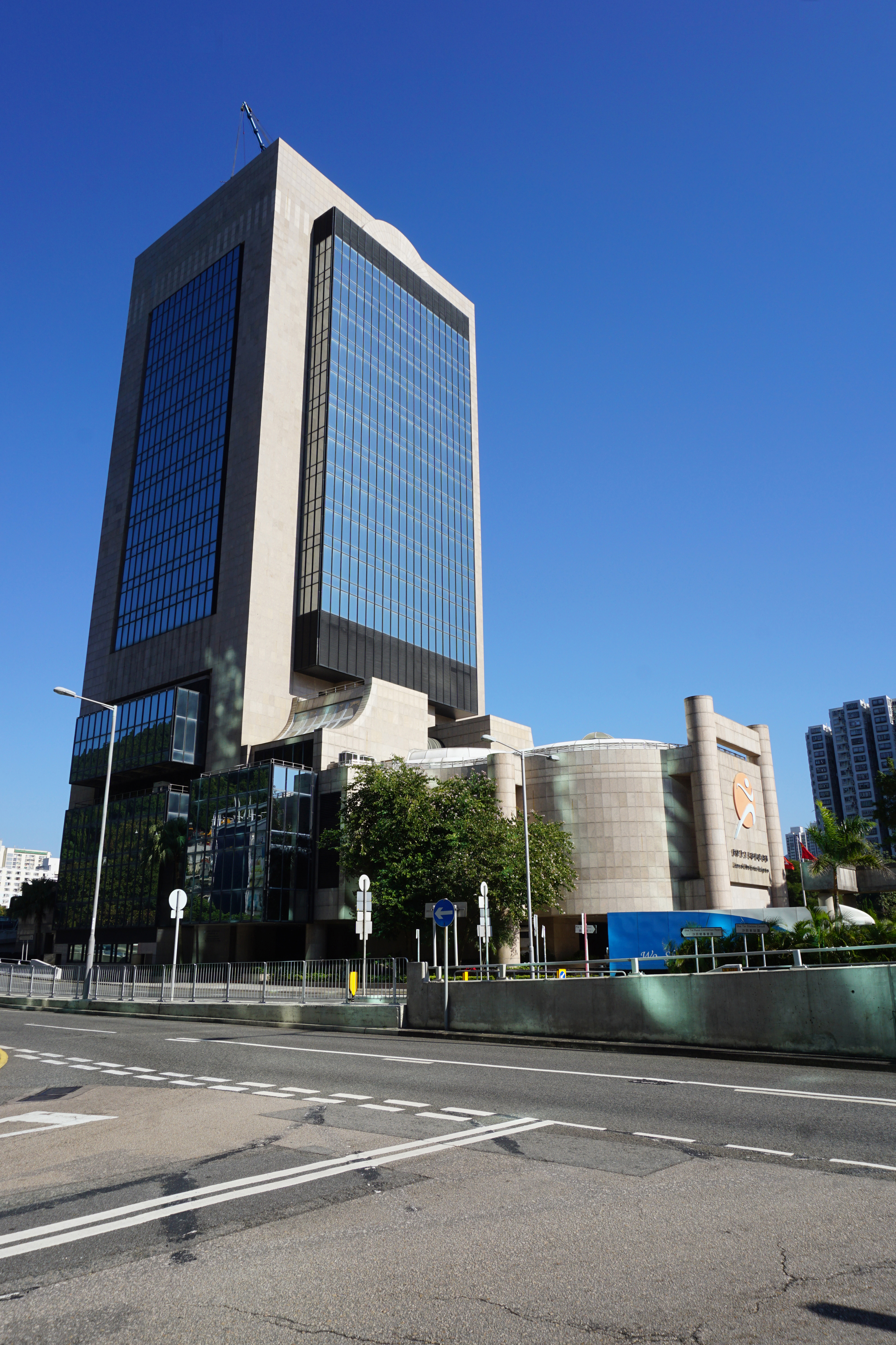 Leisure and Cultural Services Headquarters in Shatin, Hong Kong.